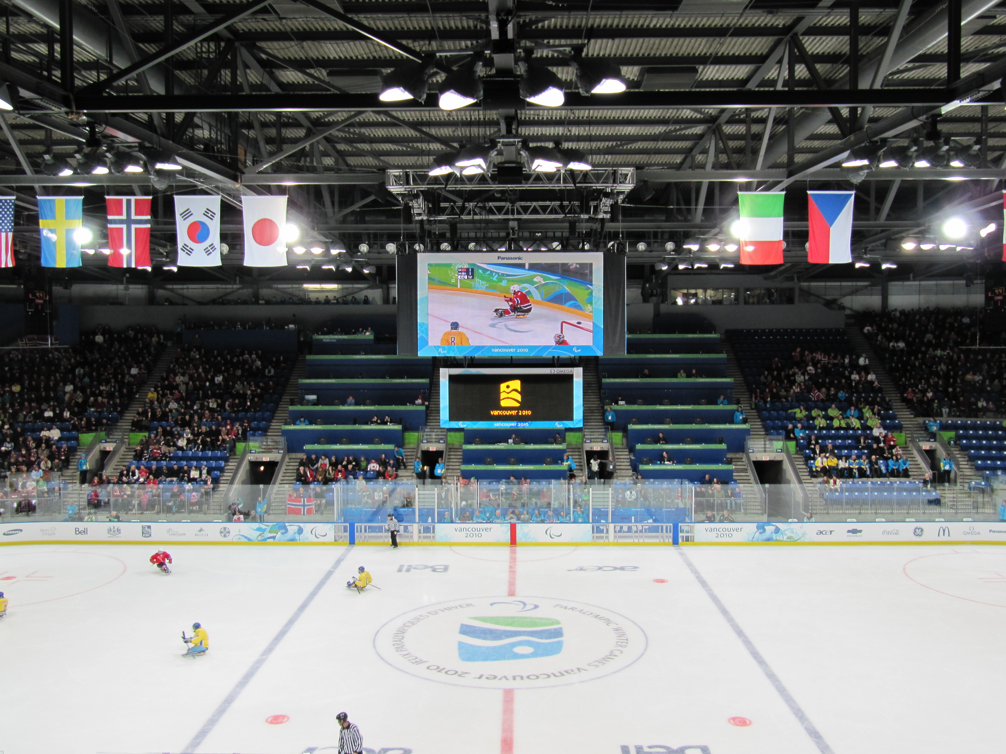 Norway vs Sweden ice sledge hockey game, at the UBC Thunderbird Winter Sports Centre, Vancouver, British Columbia, Canada, during the Winter Paralympics 2010.